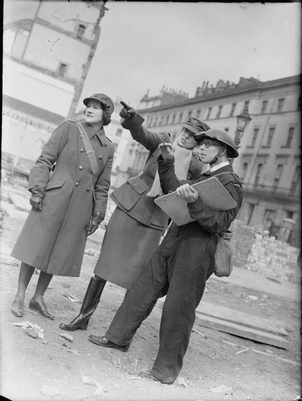 Mtc Girls For America- Women of the Mechanised Transport Corps at Work, London, England, 1940 Miss Winifred Ashford points something out to an Air Raid Precautions (ARP) Warden with a clipboard, as Mrs Pat Macleod looks on. The Warden is based at Paddington ARP station. Behind them can be seen an empty space that once held houses before they were destroyed in an air raid.